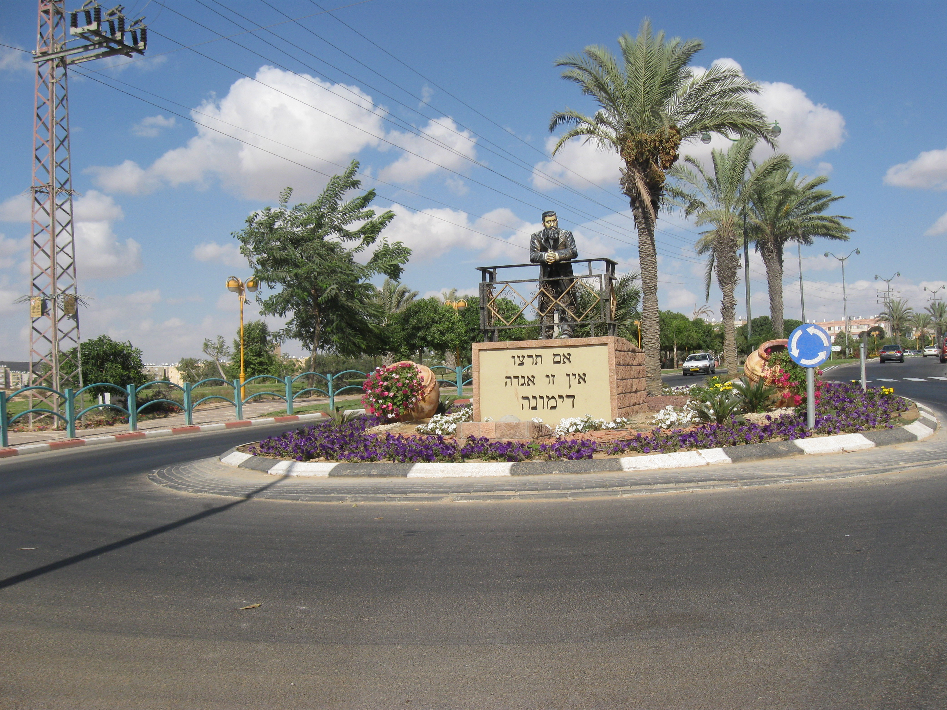 herzel in dimona